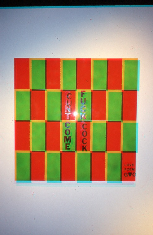 Installation shot, from the exhibition "Everything is Good" Jeffrey Neale Gallery, NY, 1987